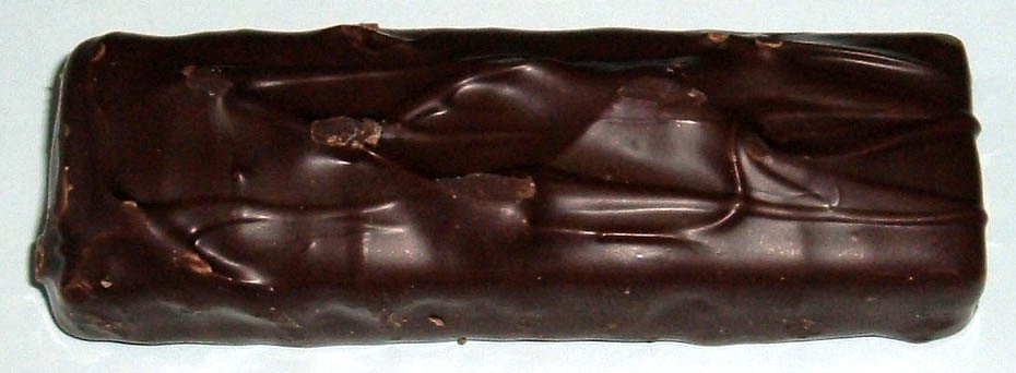 This is the US version of the Milky Way (confectionery) Dark, purchased Feb. 2005